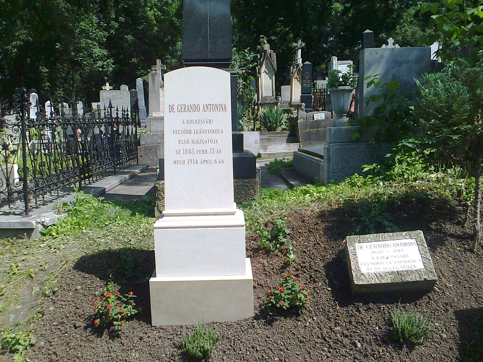 Grave of De Gerando Antonina (1845-1914) Director of higher girls' school in Kolozsvár (Transylvania)